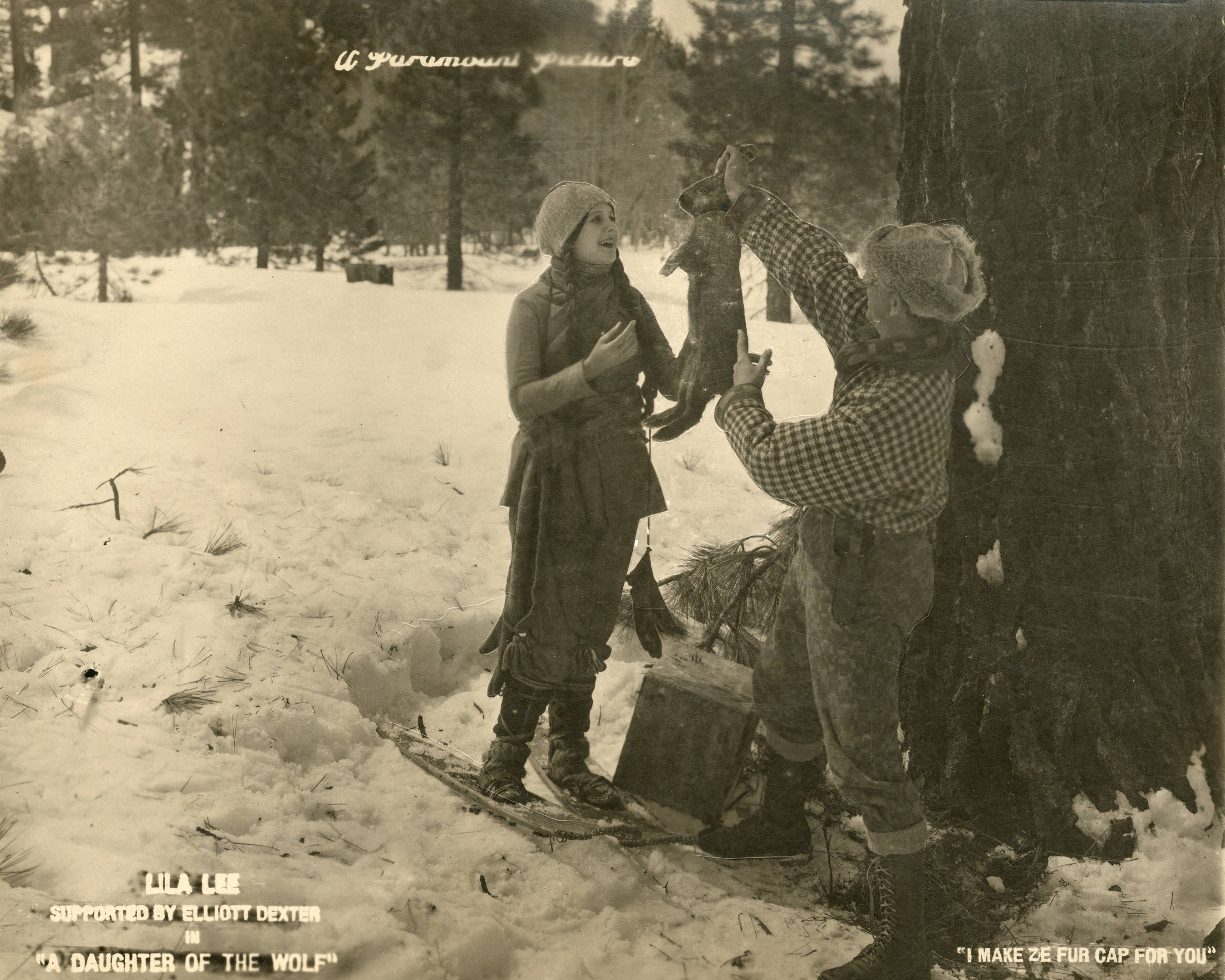 A scene from the American drama film A Daughter of the Wolf (1919), which played at the Mission Theater, Seattle. Includes Lila Lee and Elliott Dexter. Subjects: motion pictures, actresses, actors